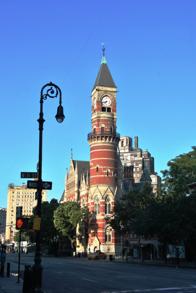 Jefferson Market Library